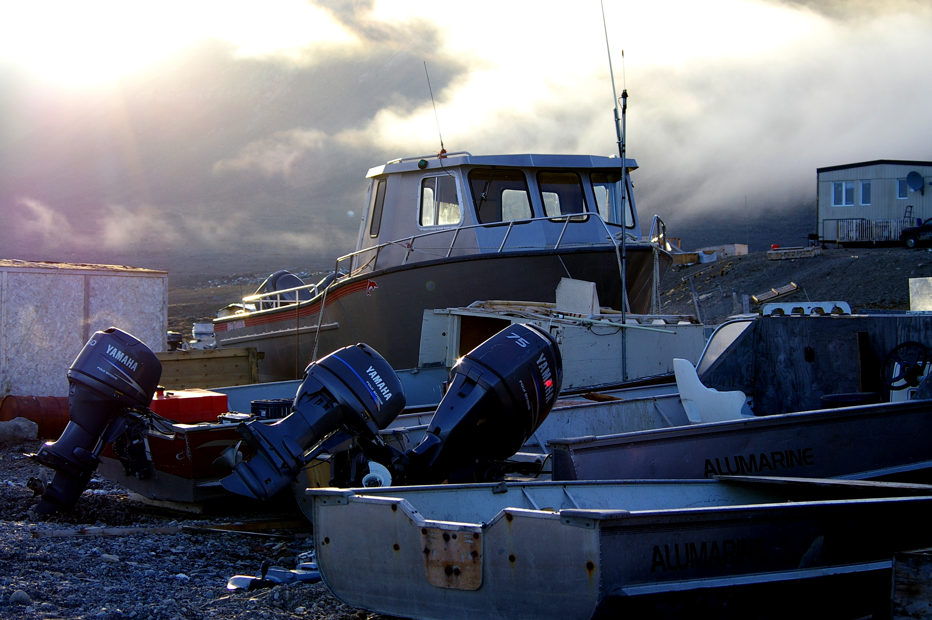 The Grise Fiord harbour.